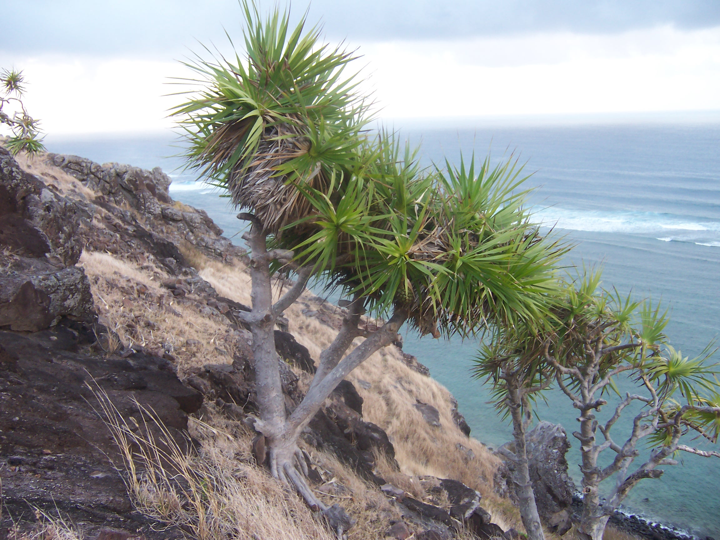 Pandanus heterocarpus (